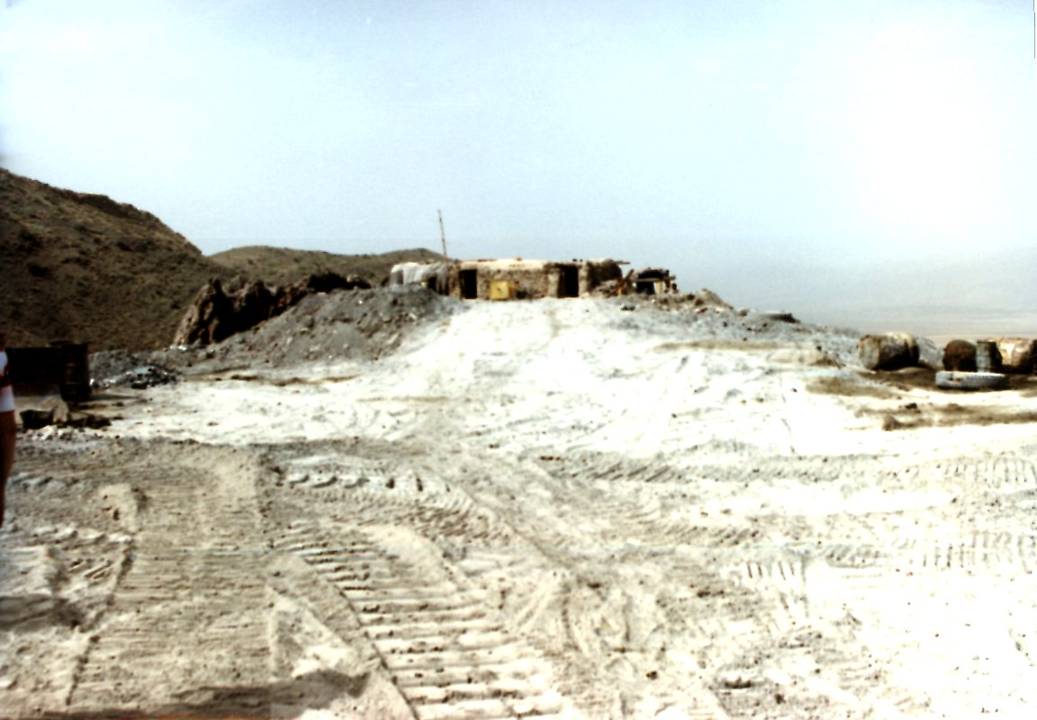 Mine 403 Muslimbagh